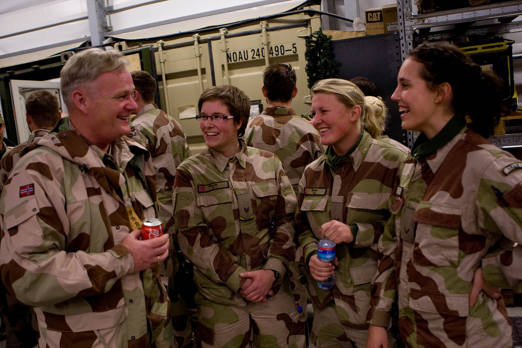 Chief of Defense Harald Sunde in conversation with soldiers from the PRT 14